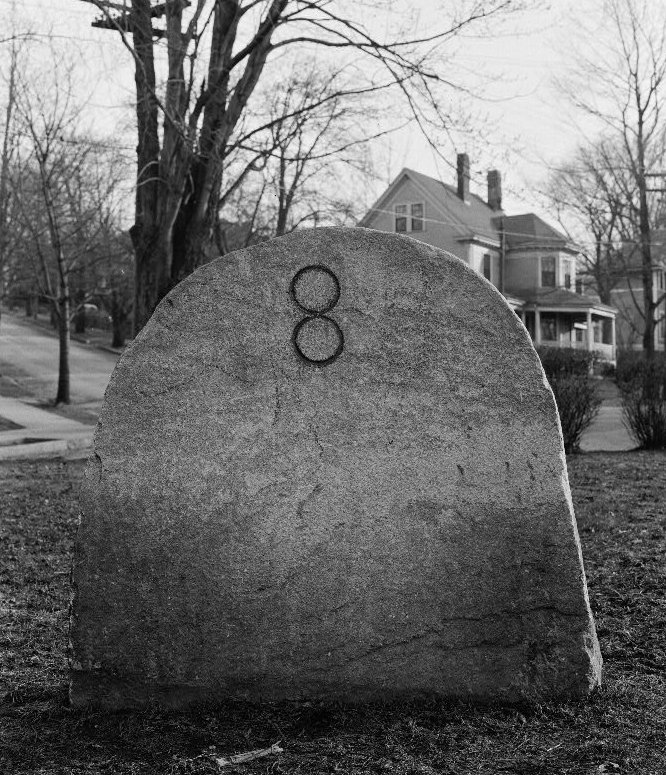 This is an image of an historic mile marker located in Arlington, Massachusetts. It marks the 8-mile point along the historic road from Boston to Concord and beyond. It is listing #85002683 on the United States National Register of Historic Places. The current version of the file has been cropped from the source image, to remove unsightly border artifacts. See the file history for the original version.